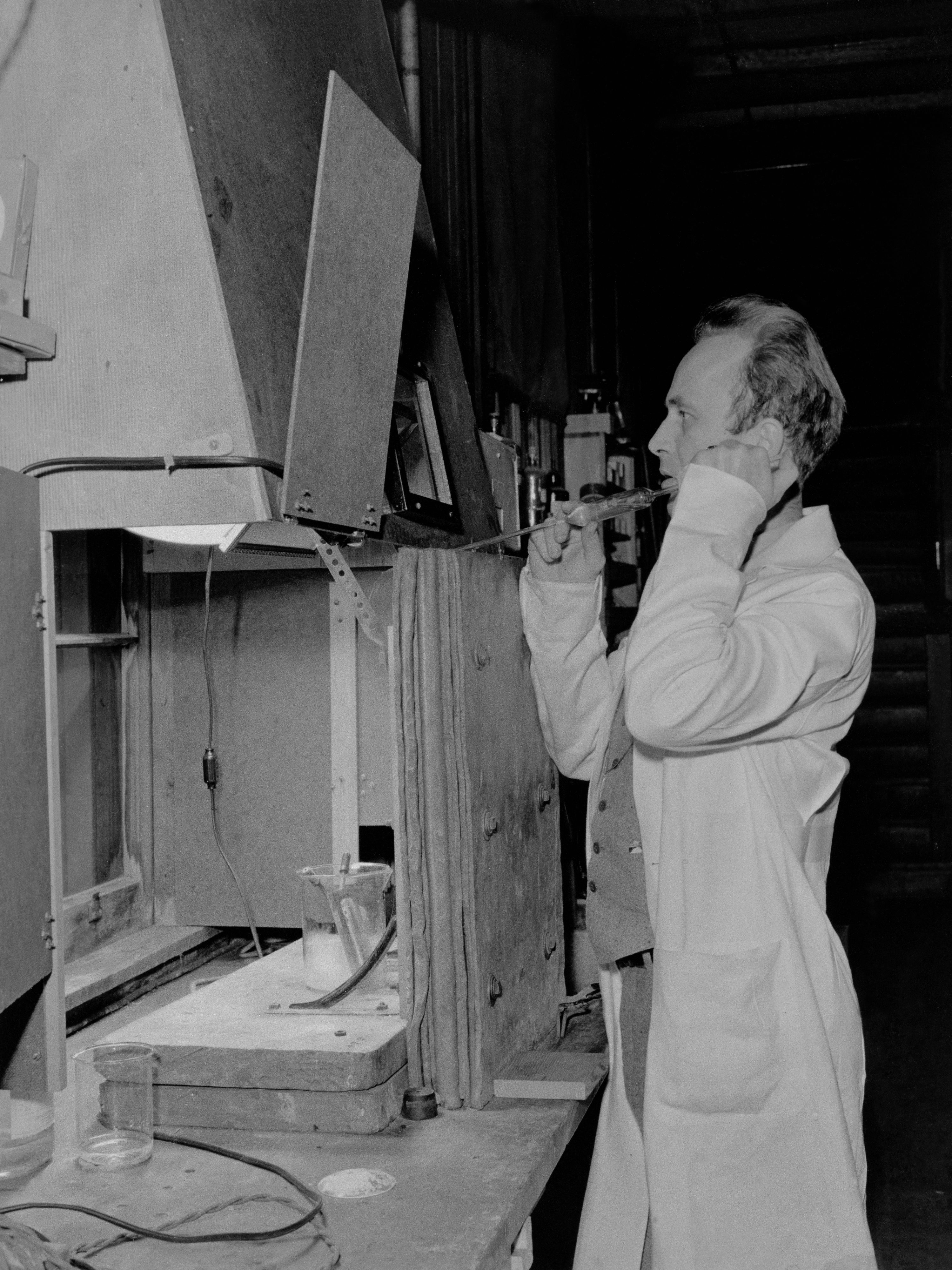 Joseph Hamilton with radio sodium experiment in Berkeley, California, January, 1939.